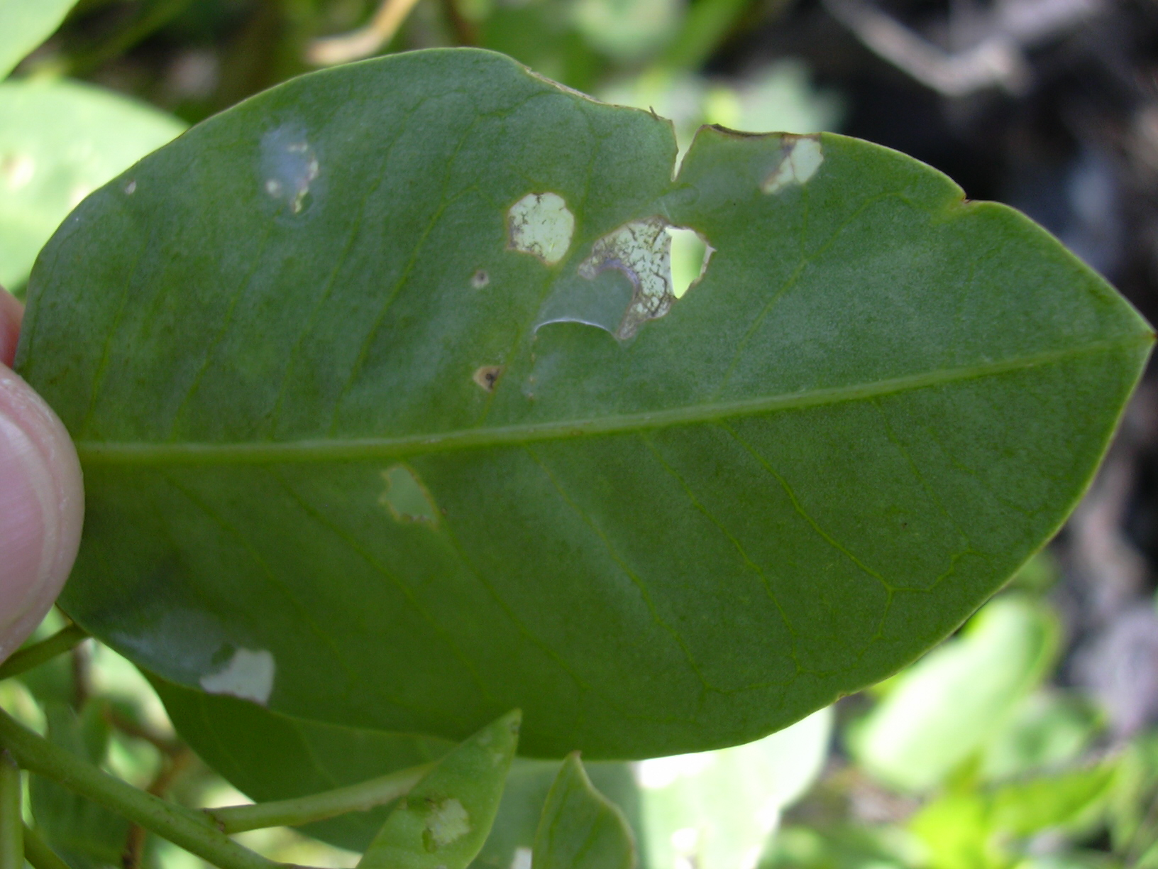 Capparis sandwichiana (Plutellid larva). Location: Maui, LaPerouse